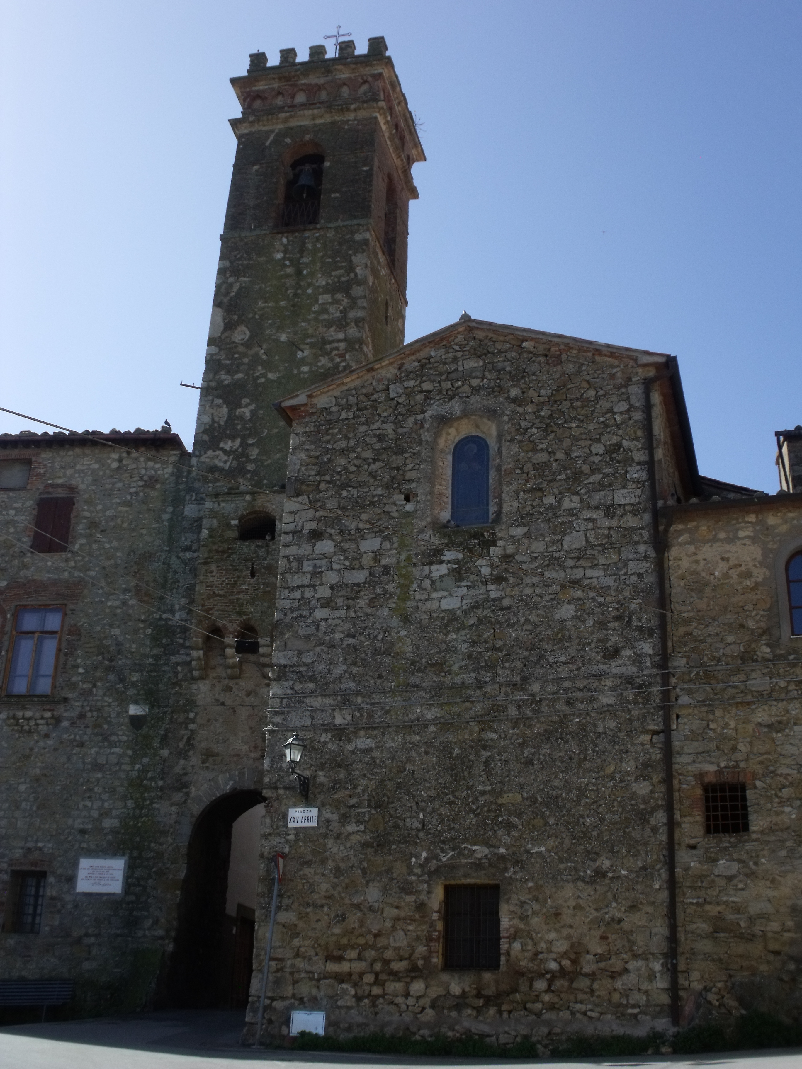 Defensive Gate Porta del Castello (also Campanile of the St. Egidio Church and on the rights hand side the Apse) in Giuncarico, hamlet of Gavorrano, Province of Grosseto, Maremma, Tuscany, Italy